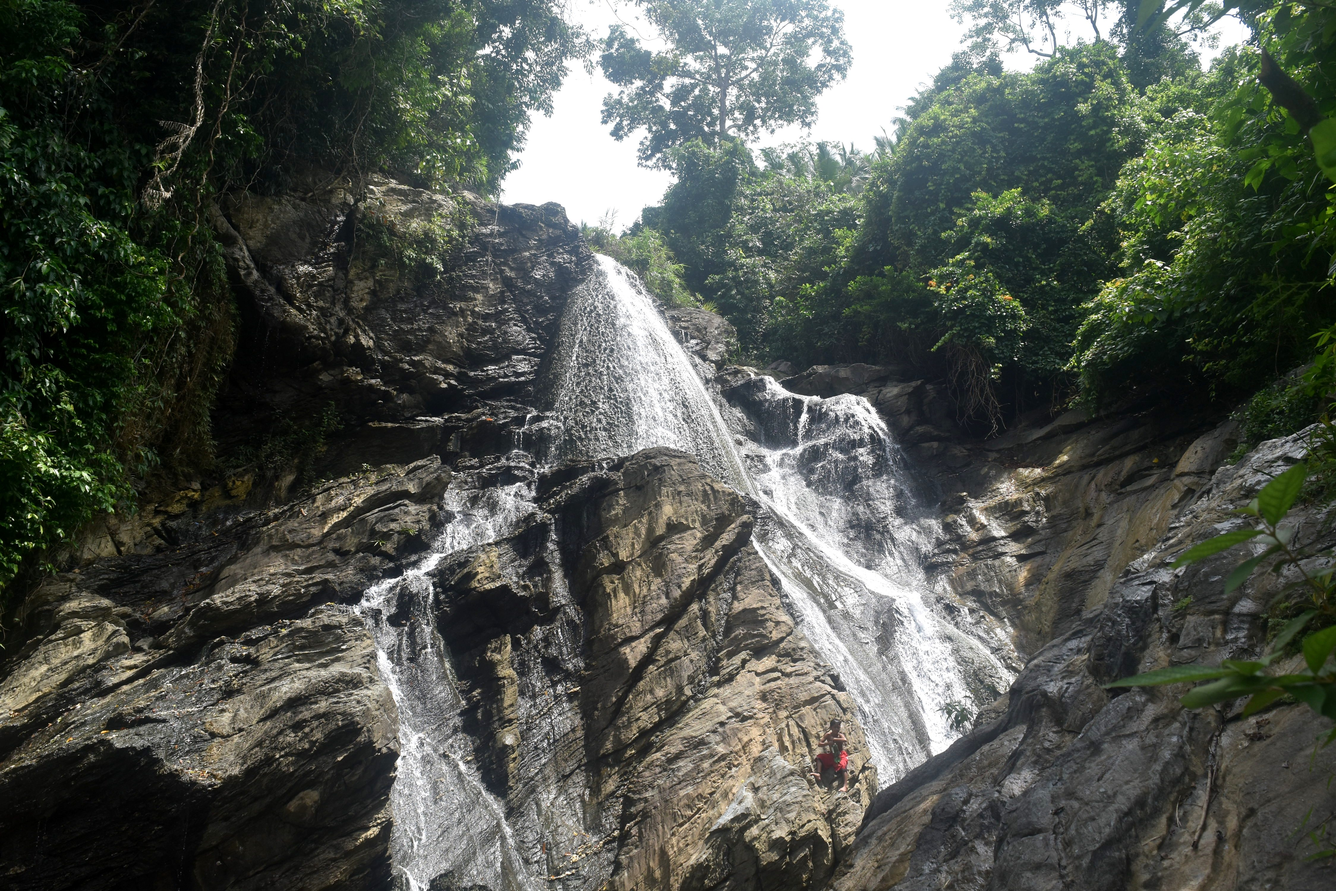 Kinahulogan Falls at Lagonoy, Camarines Sur